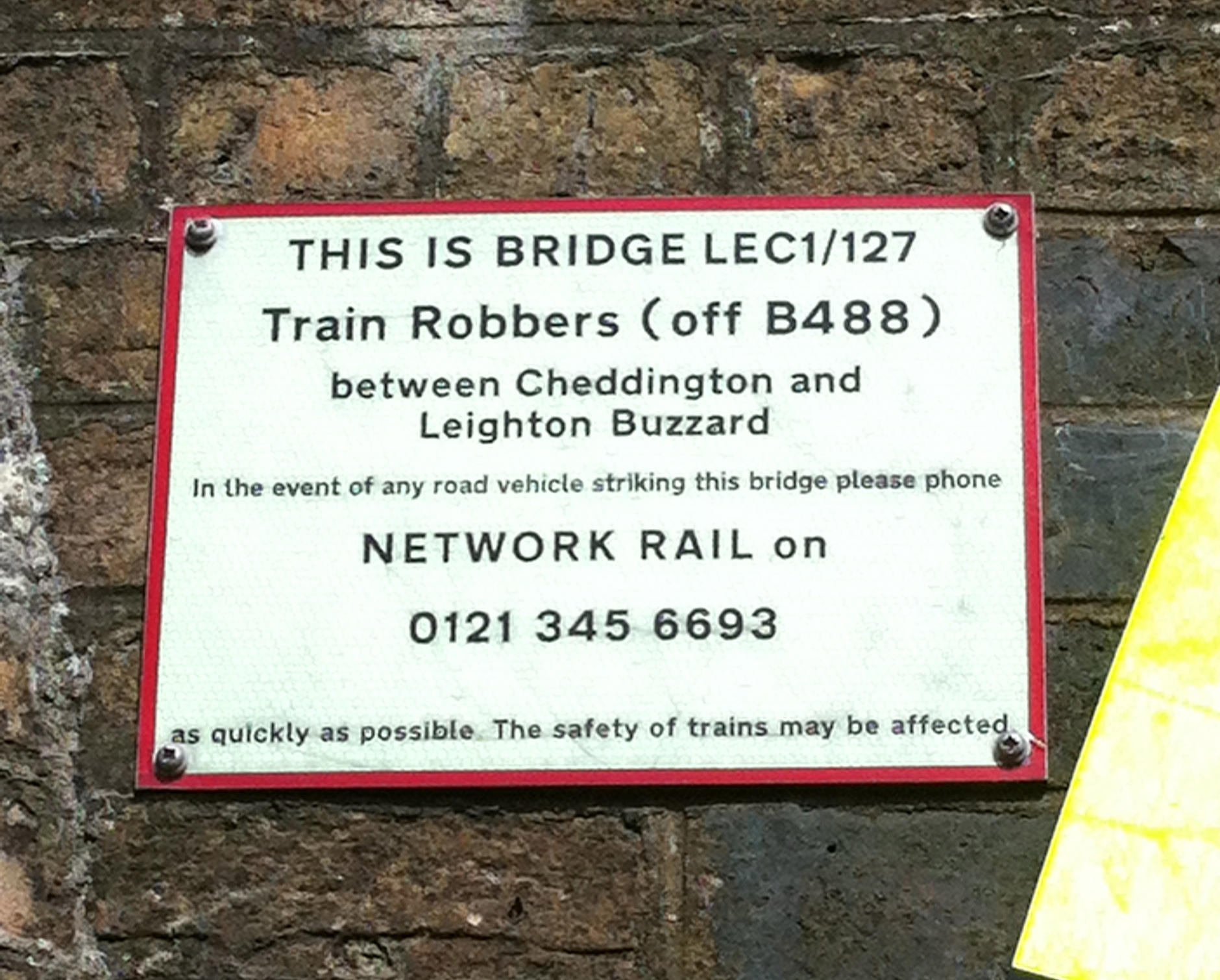 Network Rail plaque on Train Robbers' Bridge (also known as Bridego Bridge) near Ledburn, Buckinghamshire, UK